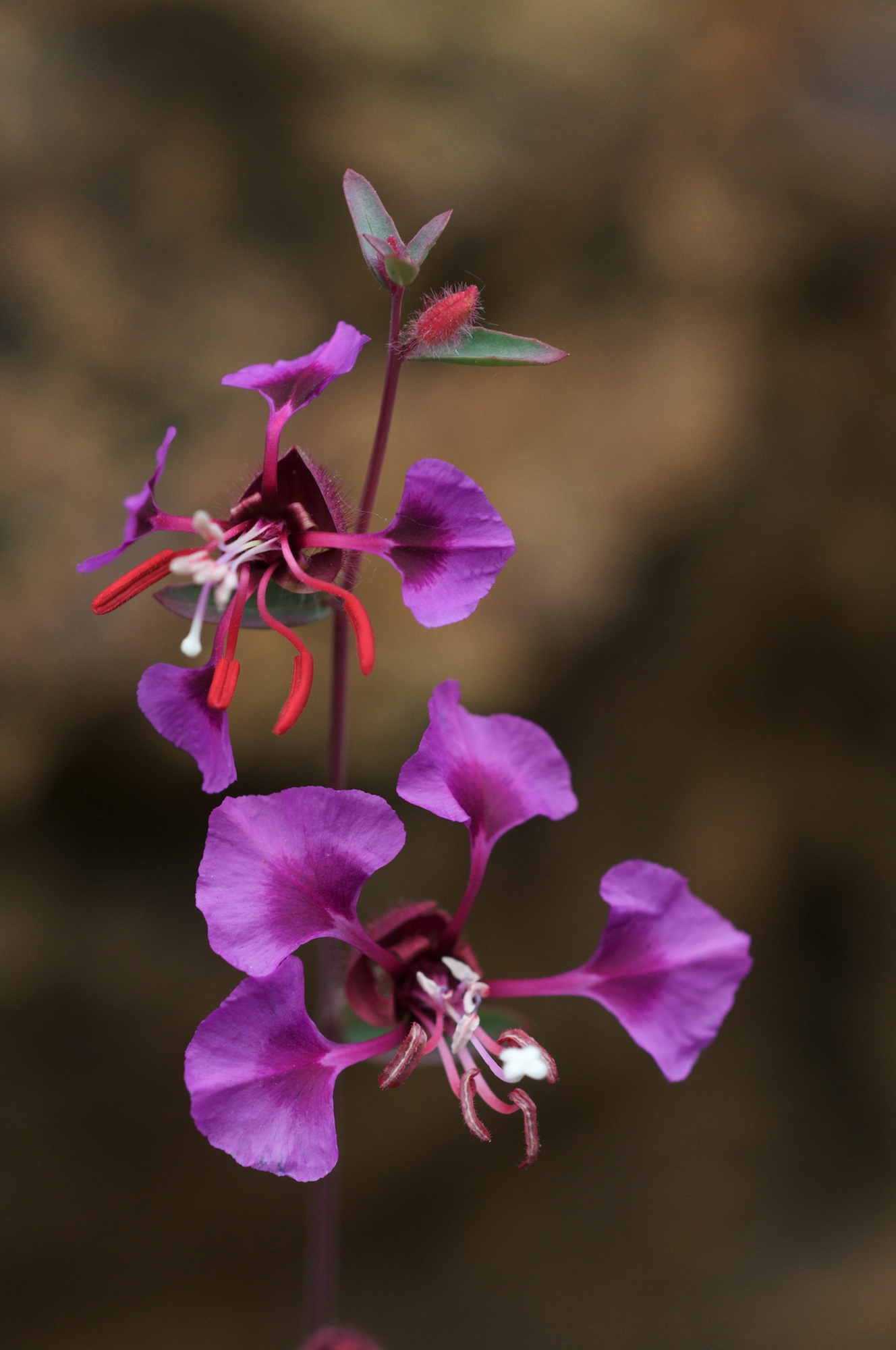 Clarkia unguiculata — common name: Elegant Clarkia Species from California chaparral and woodlands habitat (and others). Photographed on Panoche Road, San Benito County, California.